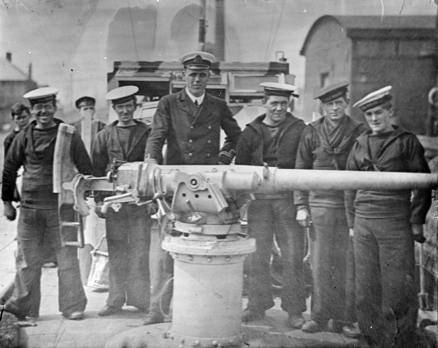 AWM caption : "A Model 1886 3 pounder Hotchkiss gun and mount with which the motor boats were armed and a gun crew which accounted for a submarine."